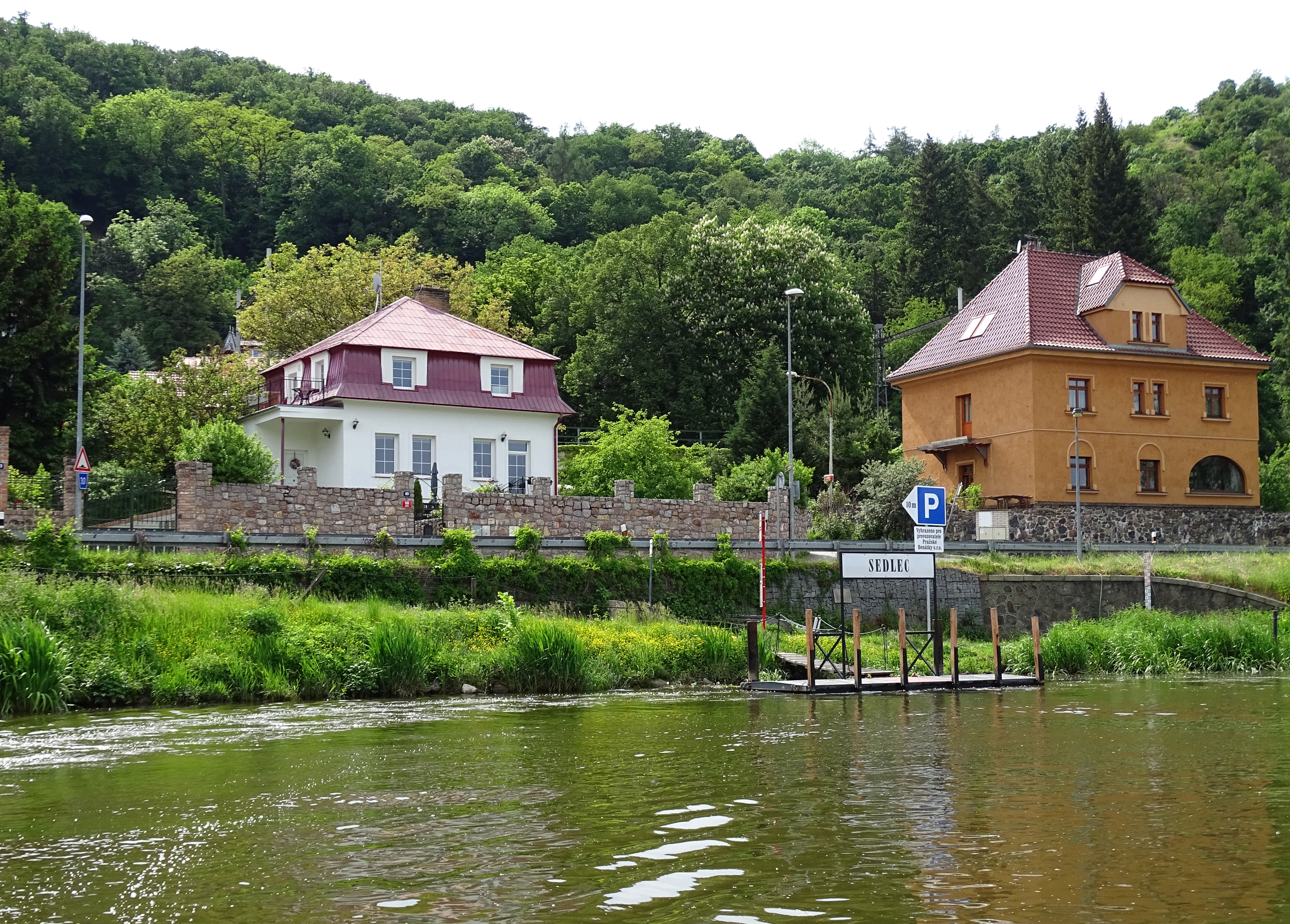 Prague-Sedlec, Czechia, Roztocká 68/45, 61/47, a ferry.